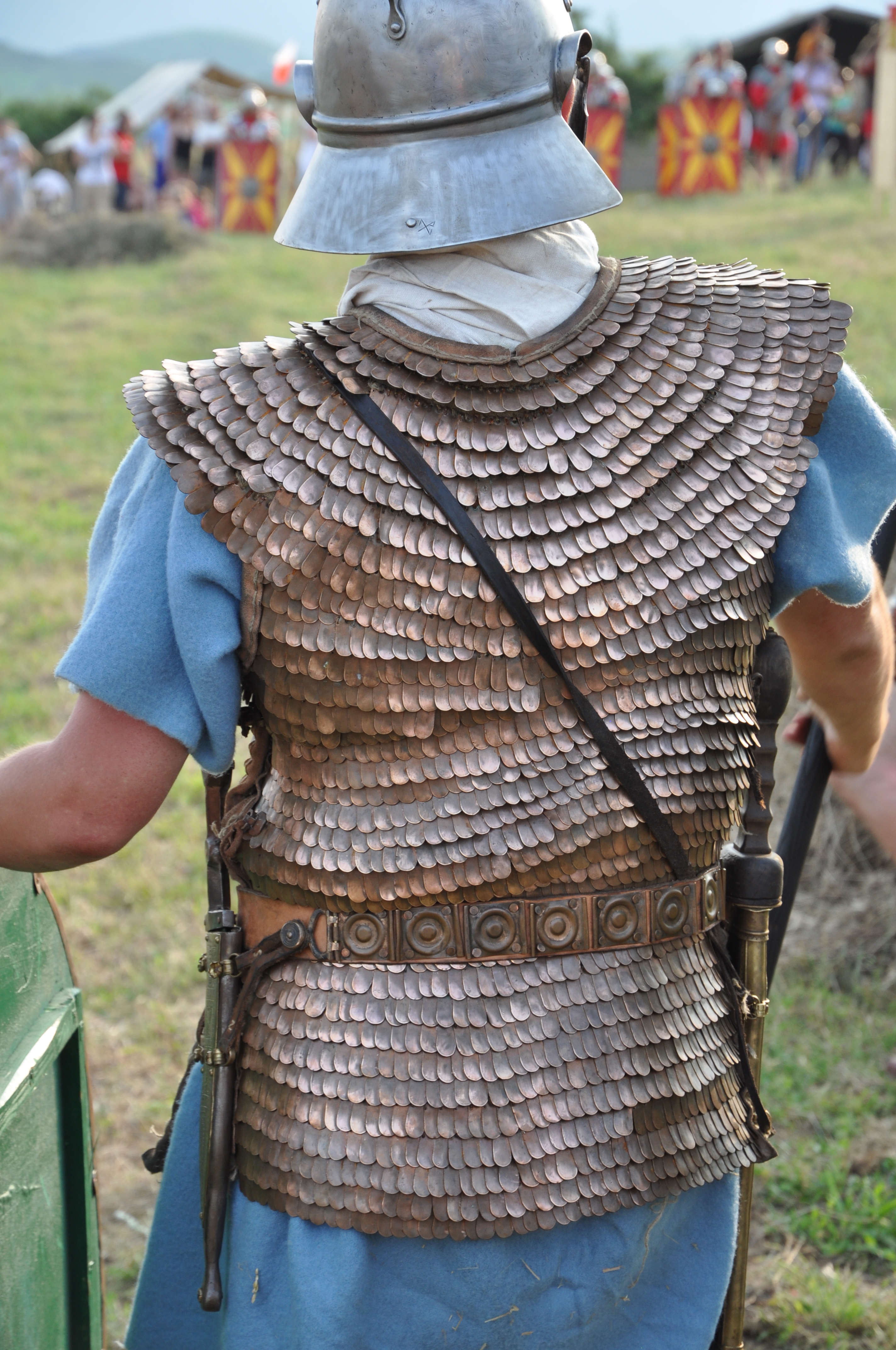 Cricău Festival 2013